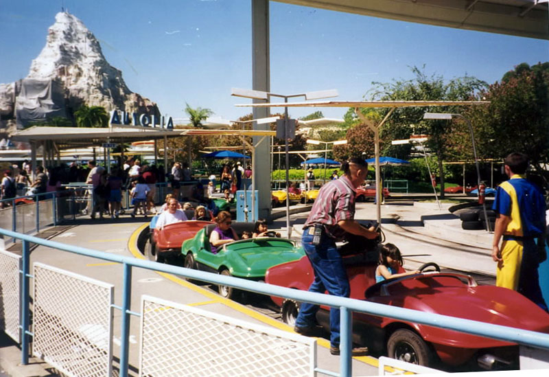 Autopia 1996 Disneyland Taken by Ellen Levy Finch (User:Elf)